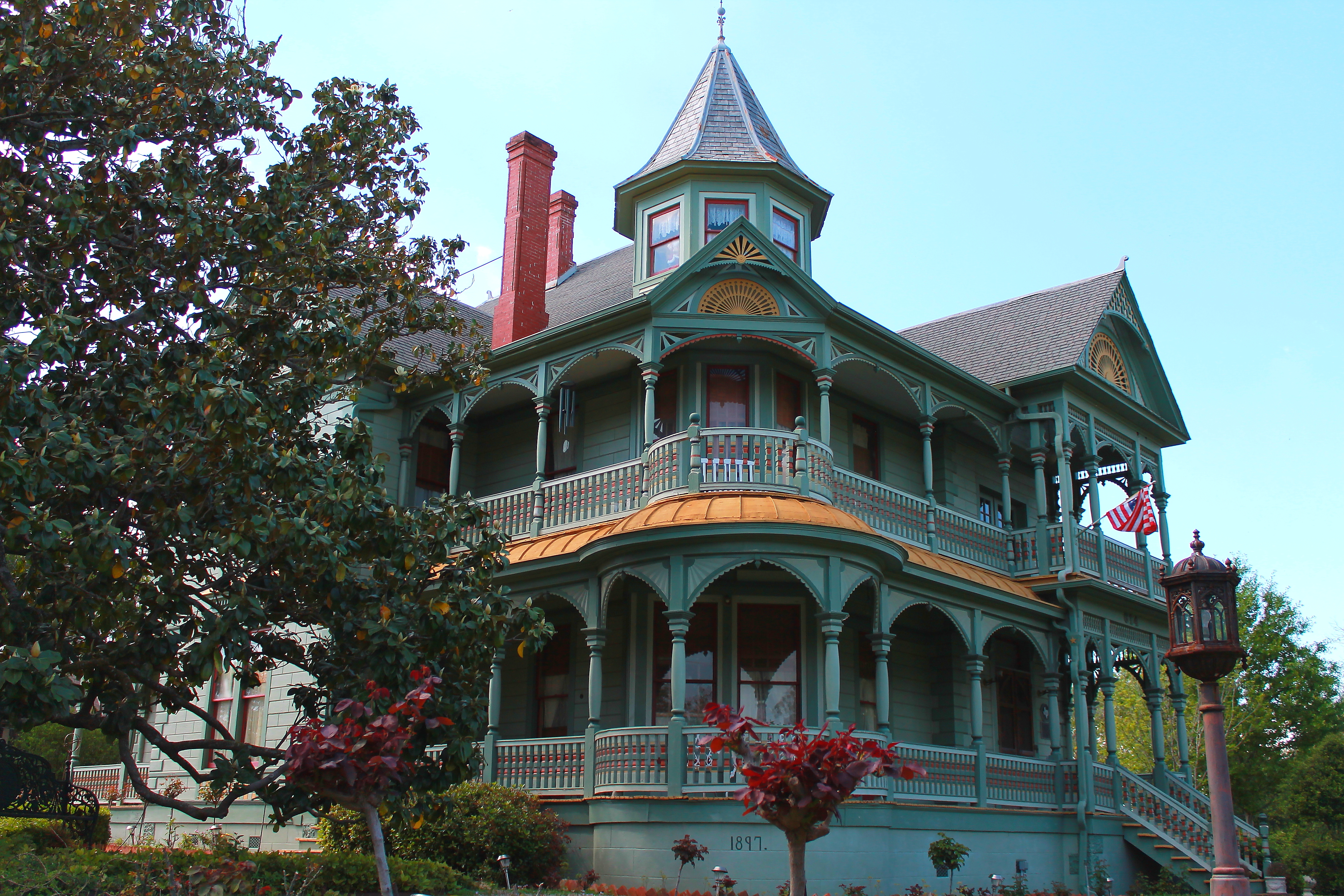 Woods-Hughes House — in Brenham, Texas. On the National Register of Historic Places in Washington County, Texas.